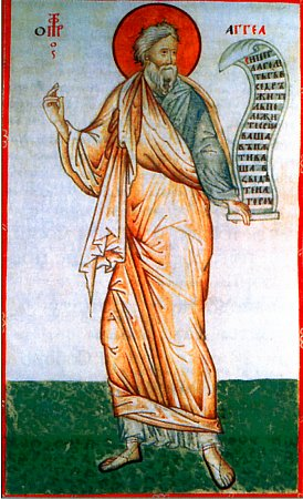 Prophet Haggai.